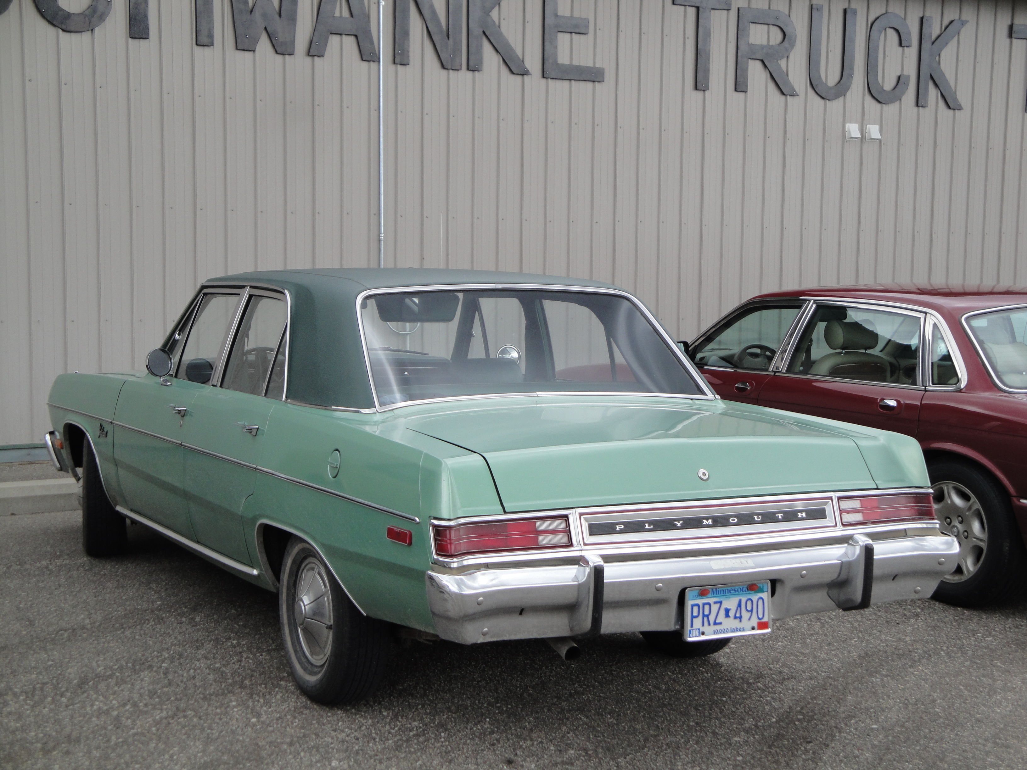 After a long, long Winter the cool cars are coming out in Minnesota. The weather was still dark, cold, wet and windy, but High School Proms and a couple of car club events brought out great cars despite the conditions. Thank you to The Minnesota Central Chapter of the AACA for bringing their Spring Fling Tour and the CCCA Spring Garage Tour to West Central Minnesota with all of your great cars. Willmar Car Club members Francis Kalvoda, Paul Aasen, Scott Jorgenson and the Schwanke Car, Truck and Tractor Museum displayed their collections to help lure so many fantastic cars and their drivers out on a rather nasty day.